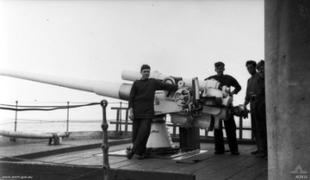 AWM caption : "THE NAVAL GUN AND CREW ON THE S.S. "ORCA" DURING THE VOYAGE TO AUSTRALIA WITH A DRAFT OF TROOPS RETURNING FOR DEMOBILIZATION." Comment : The gun appears to be a QF 4.7 inch Mk V*, supplied to Britain by Japan.